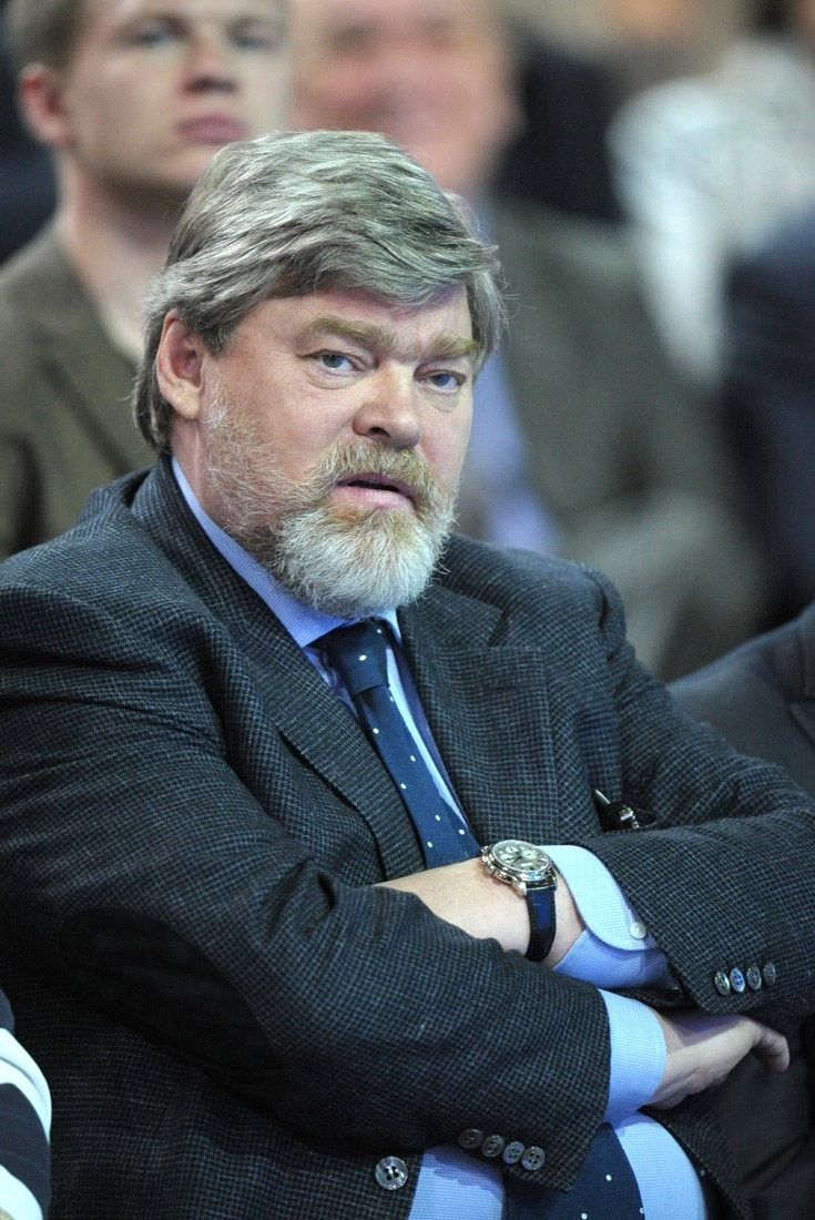 Direct Line with Vladimir Putin (2014-04-17)